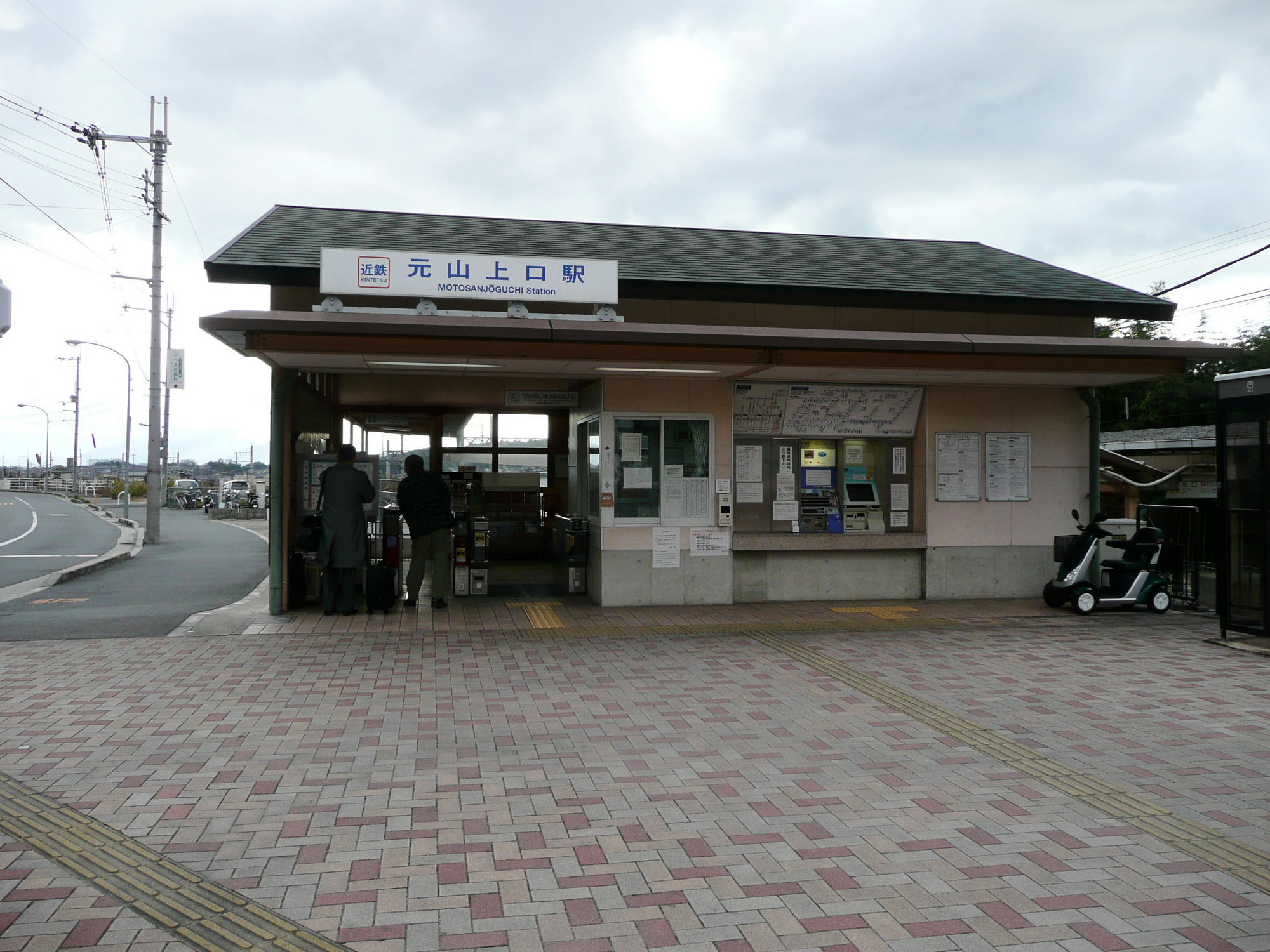 Kinki Nippon Railway,Ikoma Line,Motosanjoguchi Station.